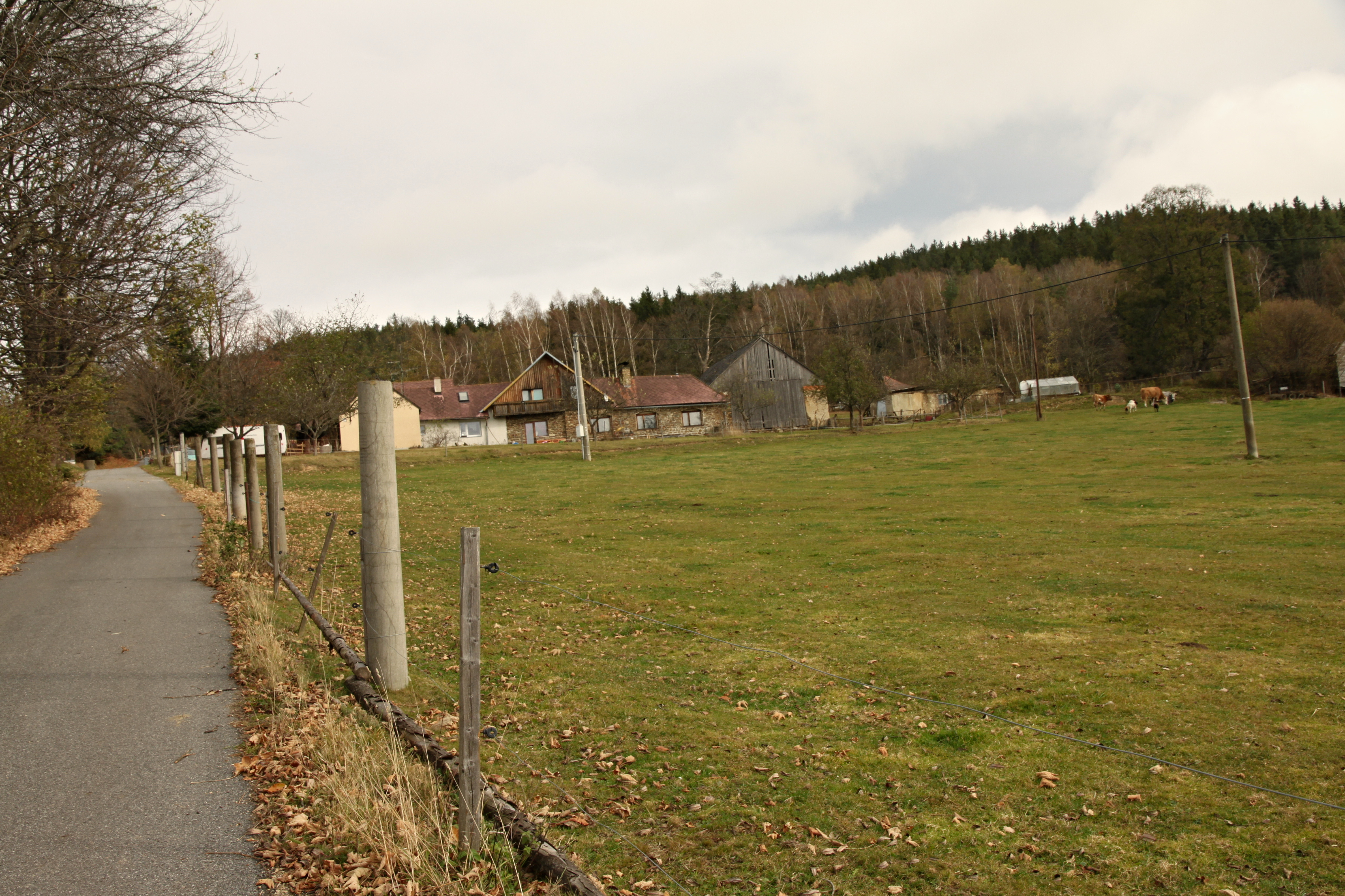 Stádla, a part of the Prachatice Municipality, South Bohemian Region, Czechia.